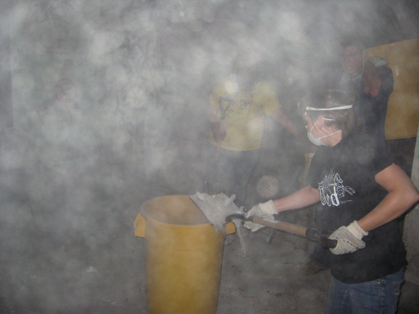 Teenage Volunteer Workers exposed to Asbestos at Michigan Central Station - Detroit, Michigan, USA - 30 June 2009 Safety warning This file depicts potentially dangerous activities.Wikimedia Commons is not responsible for any consequence resulting from the use of its files; see Commons:General disclaimer for more information.